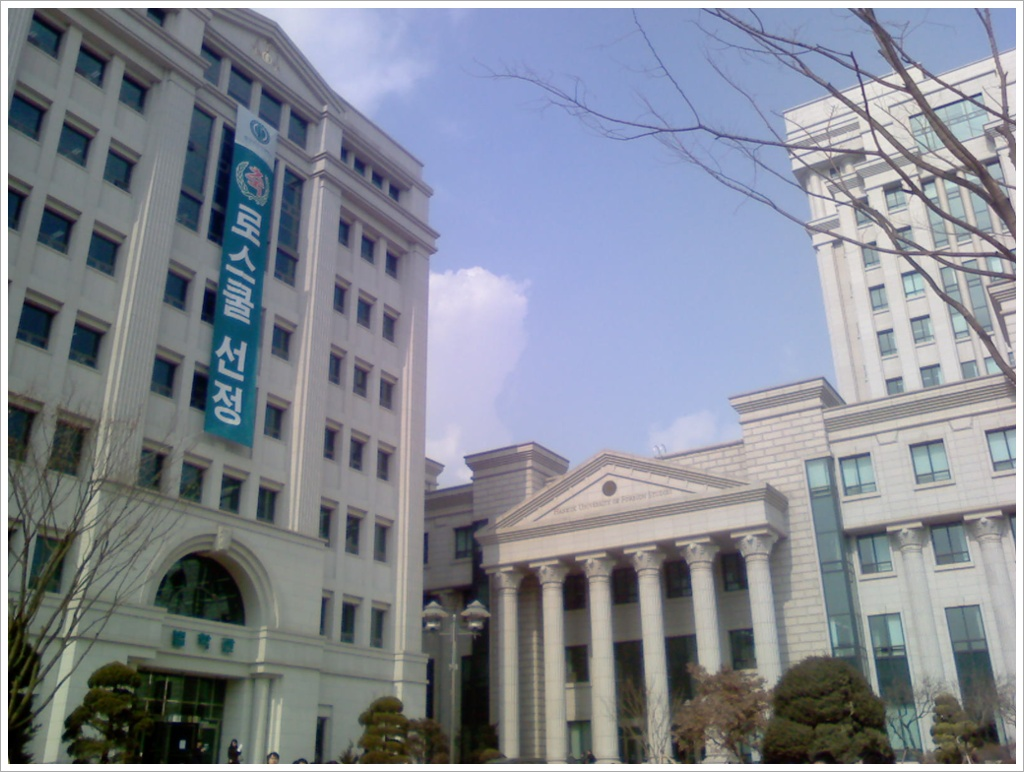 Hankuk University of Foreign Studies, Law School